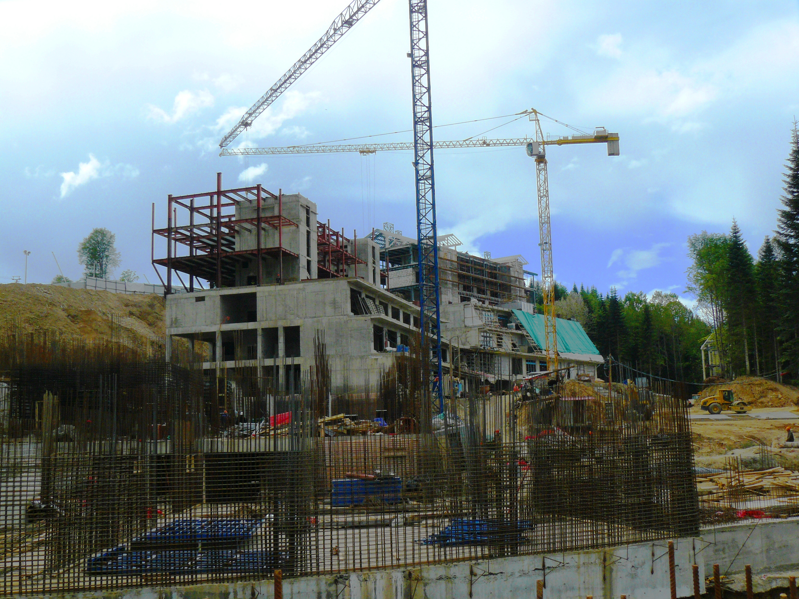 The main building of the hotel complex